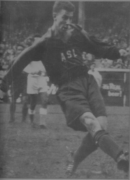 George Brown, ASL All Stars